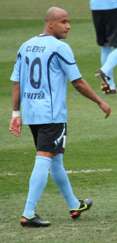 Photo of Brazilian footballer Cleber Nascimento da Silva